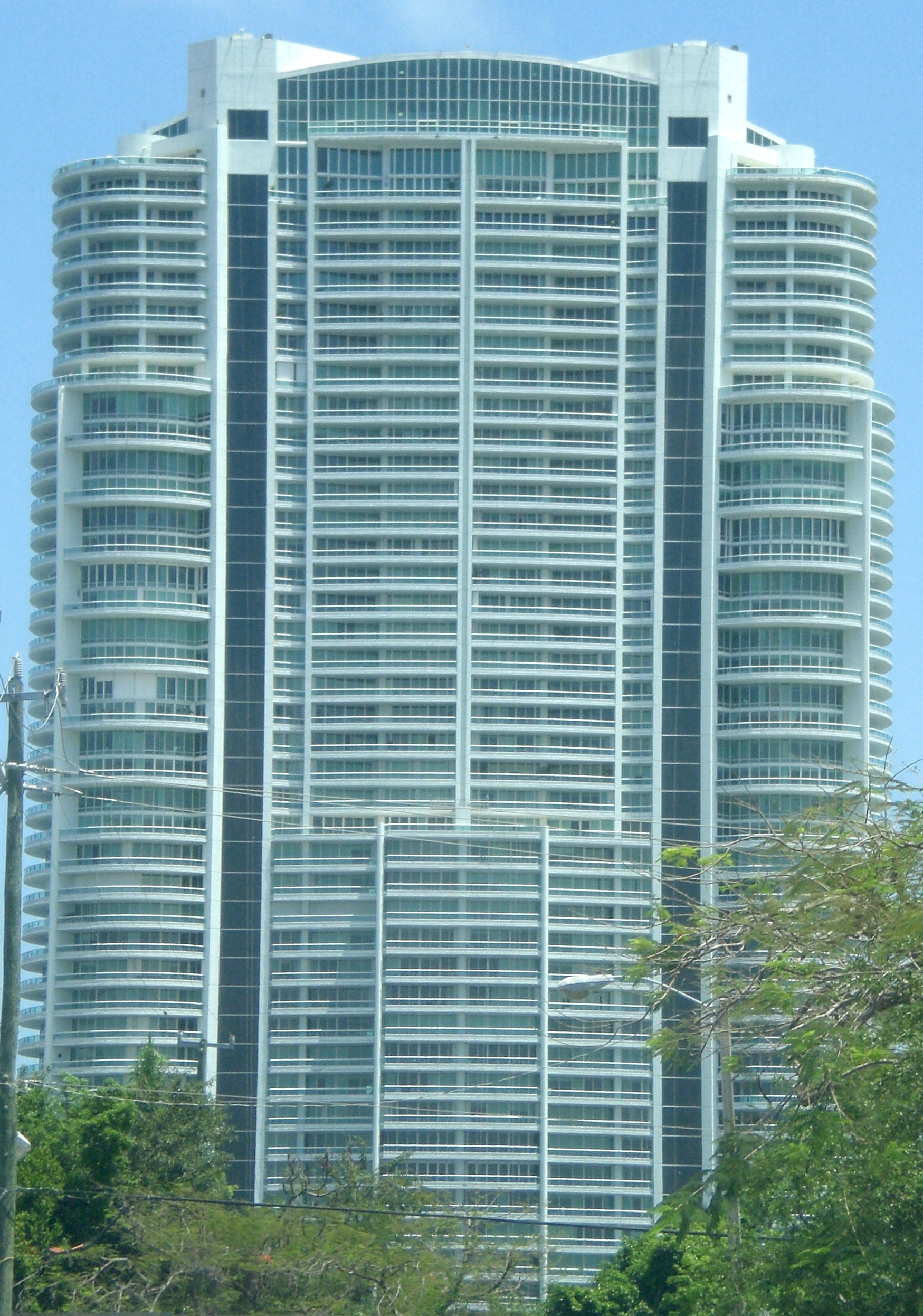 Digital photo taken by Marc Averette. Santa Maria in Brickell District of Miami, FL.